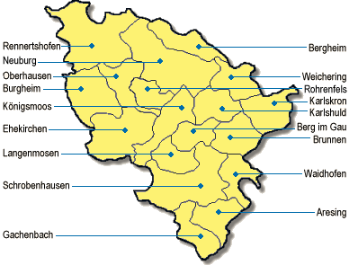 Locator maps of municipalities in District Neuburg-Schrobenhausen